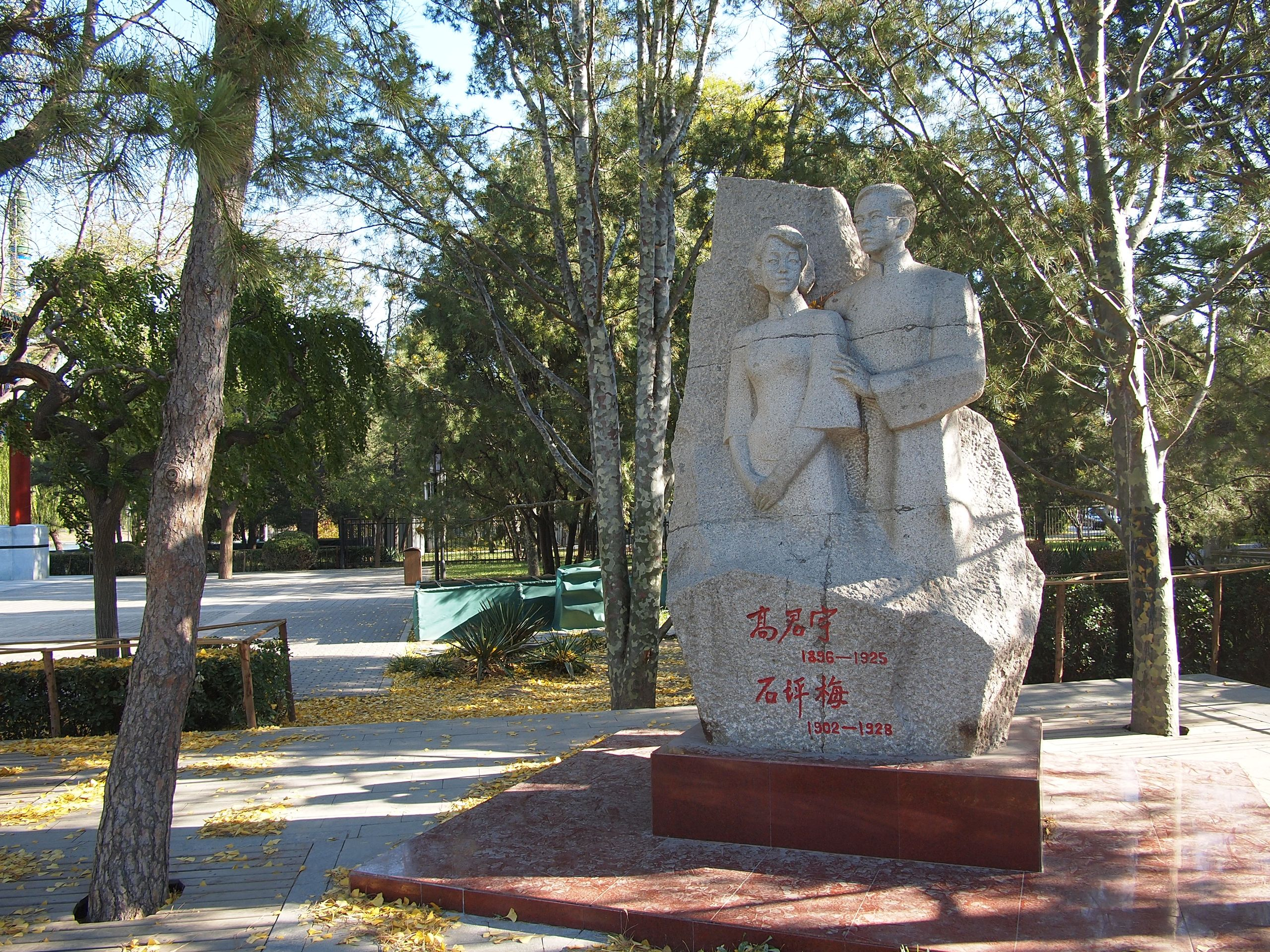 高君宇石评梅像 - Statue of Gao Junyu and Shi Pingmei - 2011.11